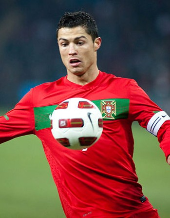 Cristiano Ronaldo during the friendly match Portugal-Argentina, in Geneva